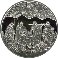 obverse of the silver coin «900 years of the Tale of Bygone Years»